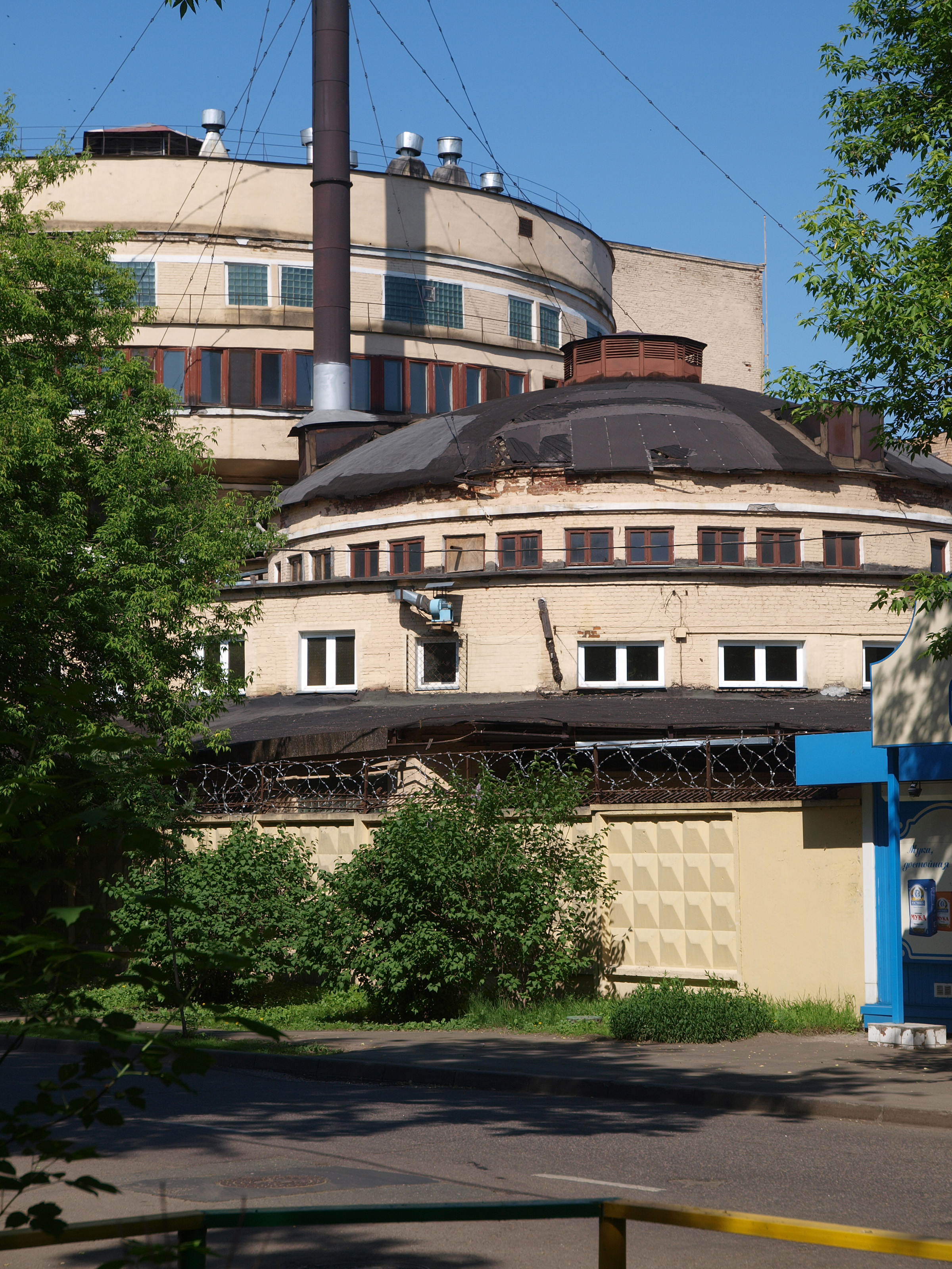 Roundhouse-type bakery in Moscow, 3rd Paveletsky Lane (operating).